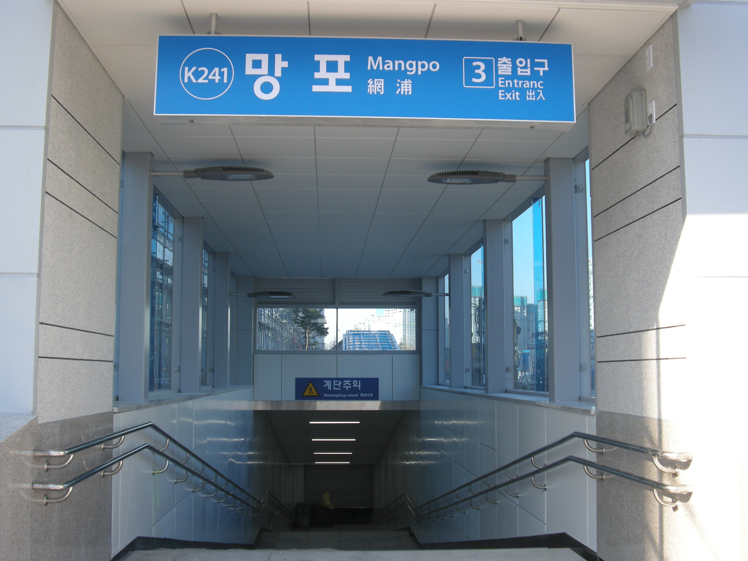 Exit 3 of Mangpo Station, Bundang Line